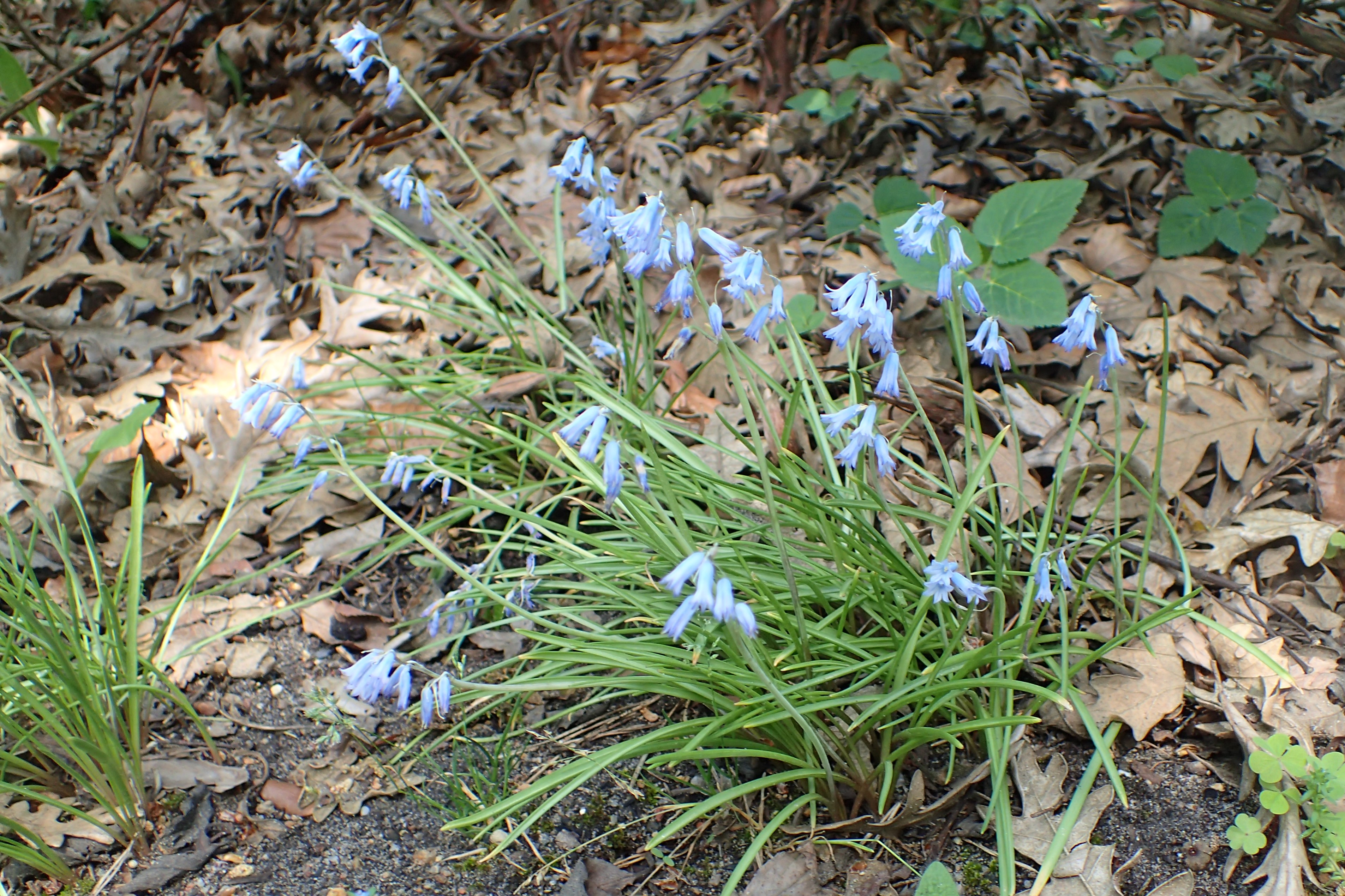 Brimeura amethystina in the Botanischer Garten, Berlin-Dahlem